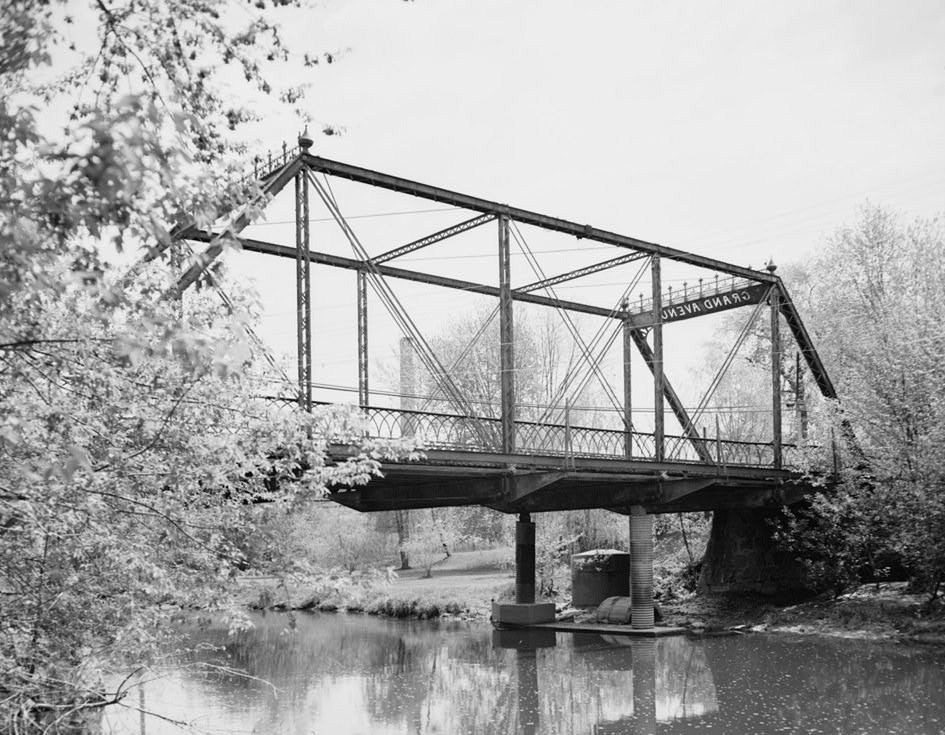 Grand Avenue Bridge, Spanning O'Neil Creek at Grand Avenue, Neillsville (Clark County, Wisconsin) cropped Template:PD-USGov-NPS-HAER WIS,10-NEIL,2-1